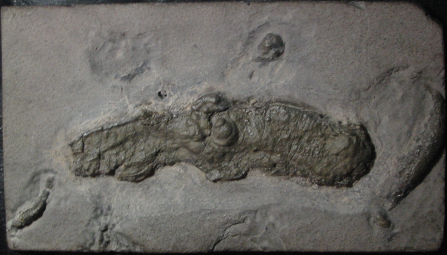 Vampyronassa rhodanica (extinct vampire squid) pyritized fossil from the Callovian (middle Jurassic) Voulte-sur-Rhône or Voulte sur Rhône in France. It also features a shrimp behind it (possibly Aeger brevirostris) and the bivalve Bositra buchii above.